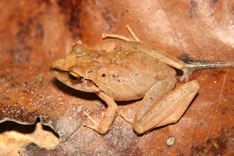 Pristimantis fenestratus